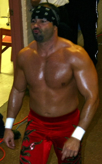 Chavo Guerrero, Jr. makes his entrance on a WWE house show held in Kitchener, Ontario, Canada on January 15, 2005.